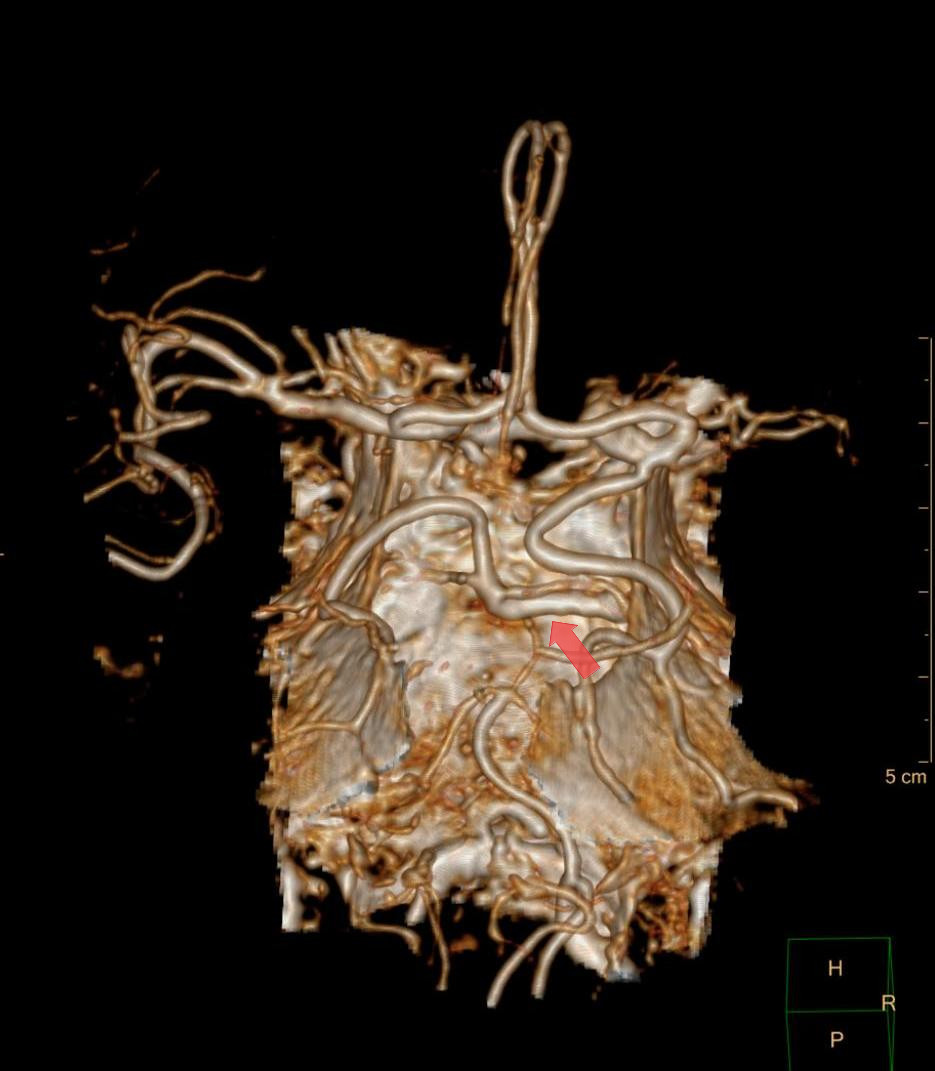 This image is part of a series which can be scrolled interactively with the mousewheel or mouse dragging. This is done by using Template:Imagestack. The series is found in the category Persistent trigeminal artery - Case 001.